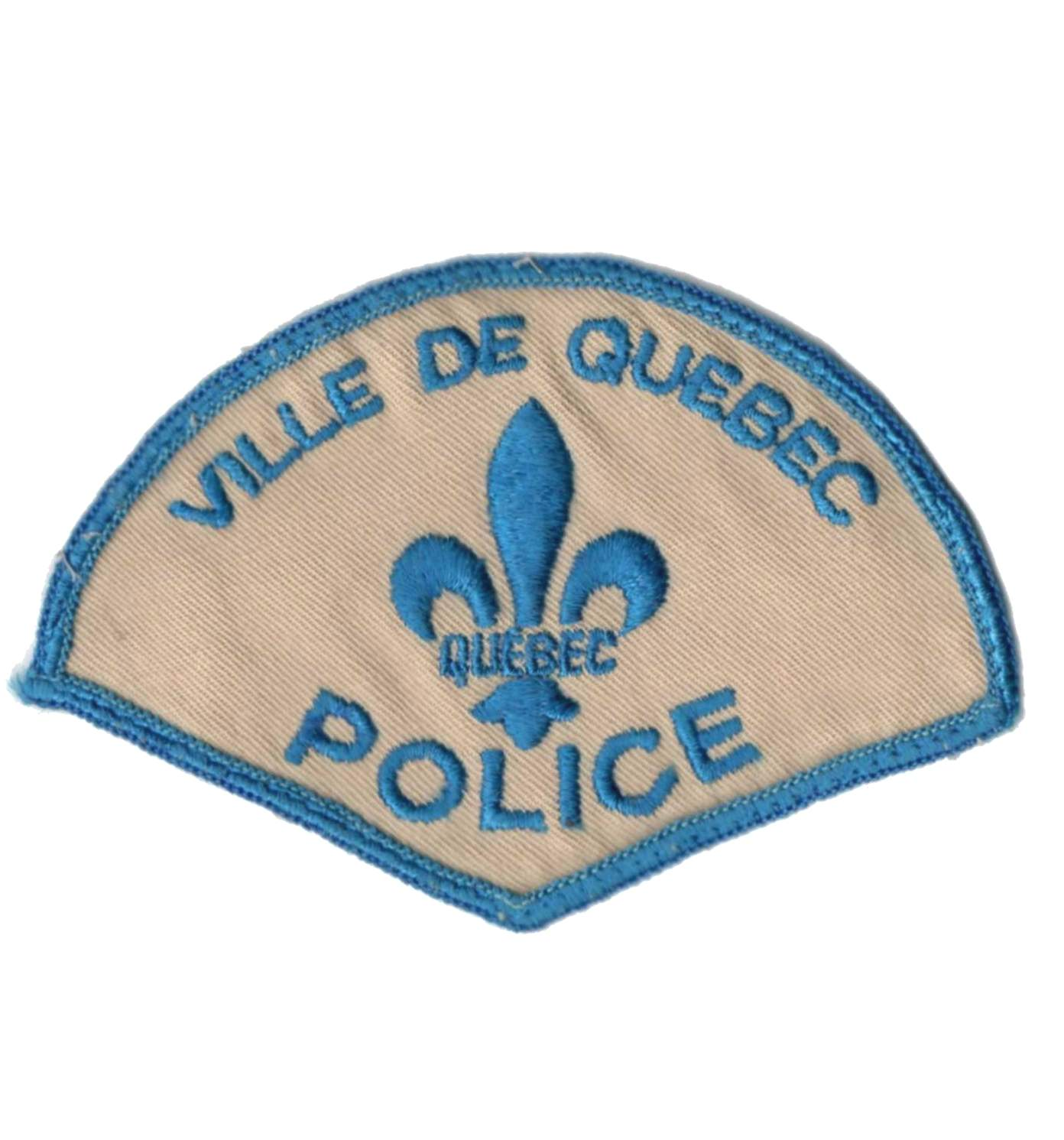 Quebec City Police Service old patch